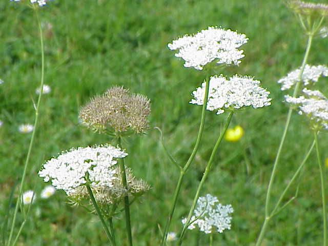 Species: Oenanthe pimpinelloides Family: Apiaceae Image No. 3